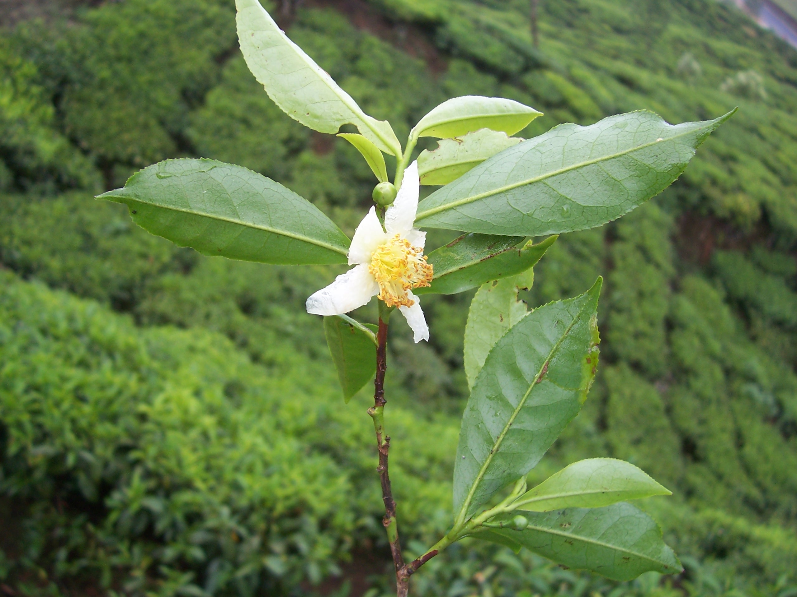 Flower of Camellia sinensis (Munnar, India)